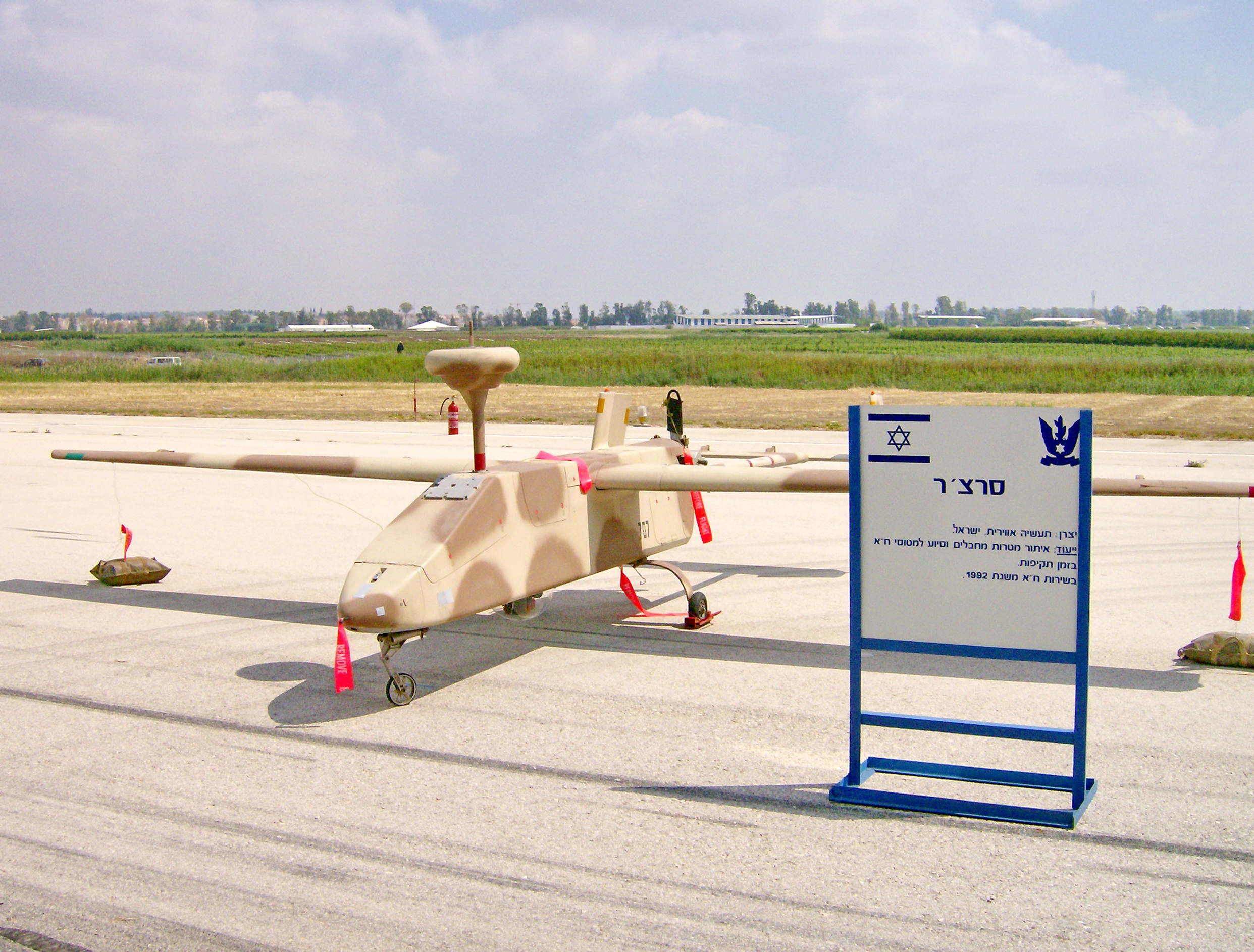 Israeli made Searcher, Tel nof, Israel